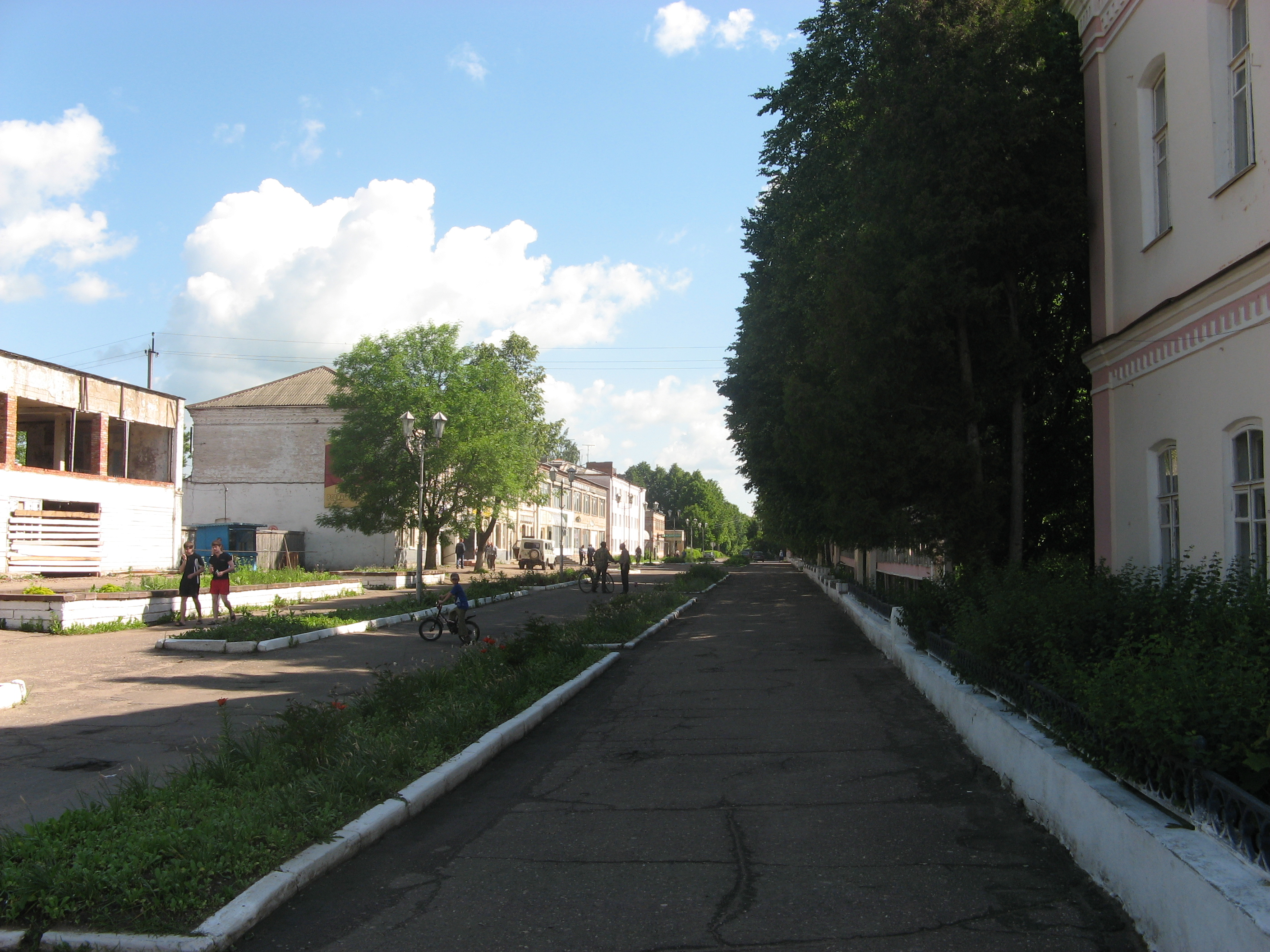 Пешеходная улица в Ельне